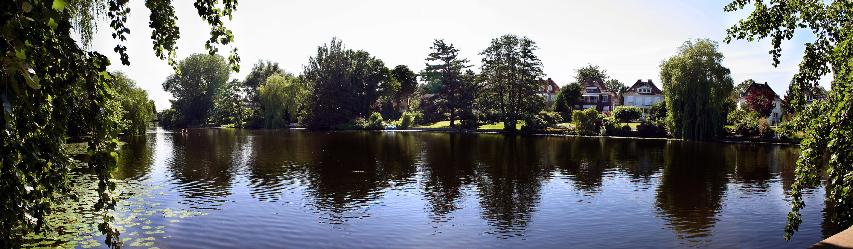 panoramic shot of the Alsterwanderweg in Hamburg-Alsterdorf, Germany